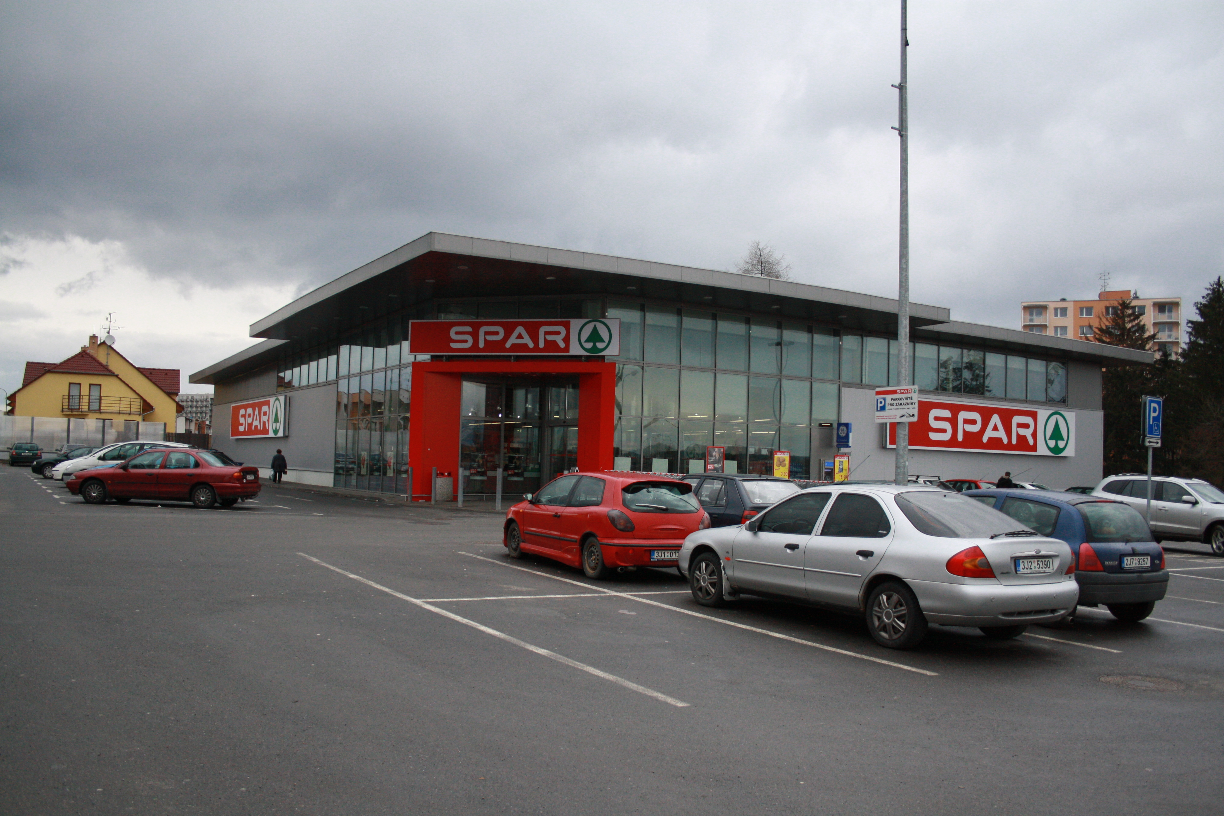 SPAR supermarket in Třebíč, Czech Republic.